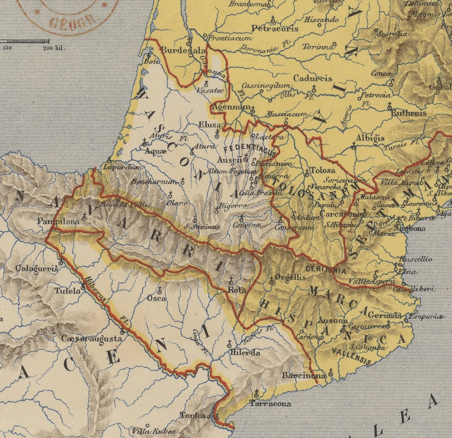 Map of «Marca Hispanica», «Navarri» and «Wasconia» in 806 by Auguste Longnon, 1876.